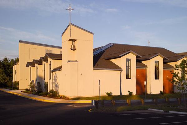 Exterior of Epiphany Episcopal Church in Oak Hill, VA